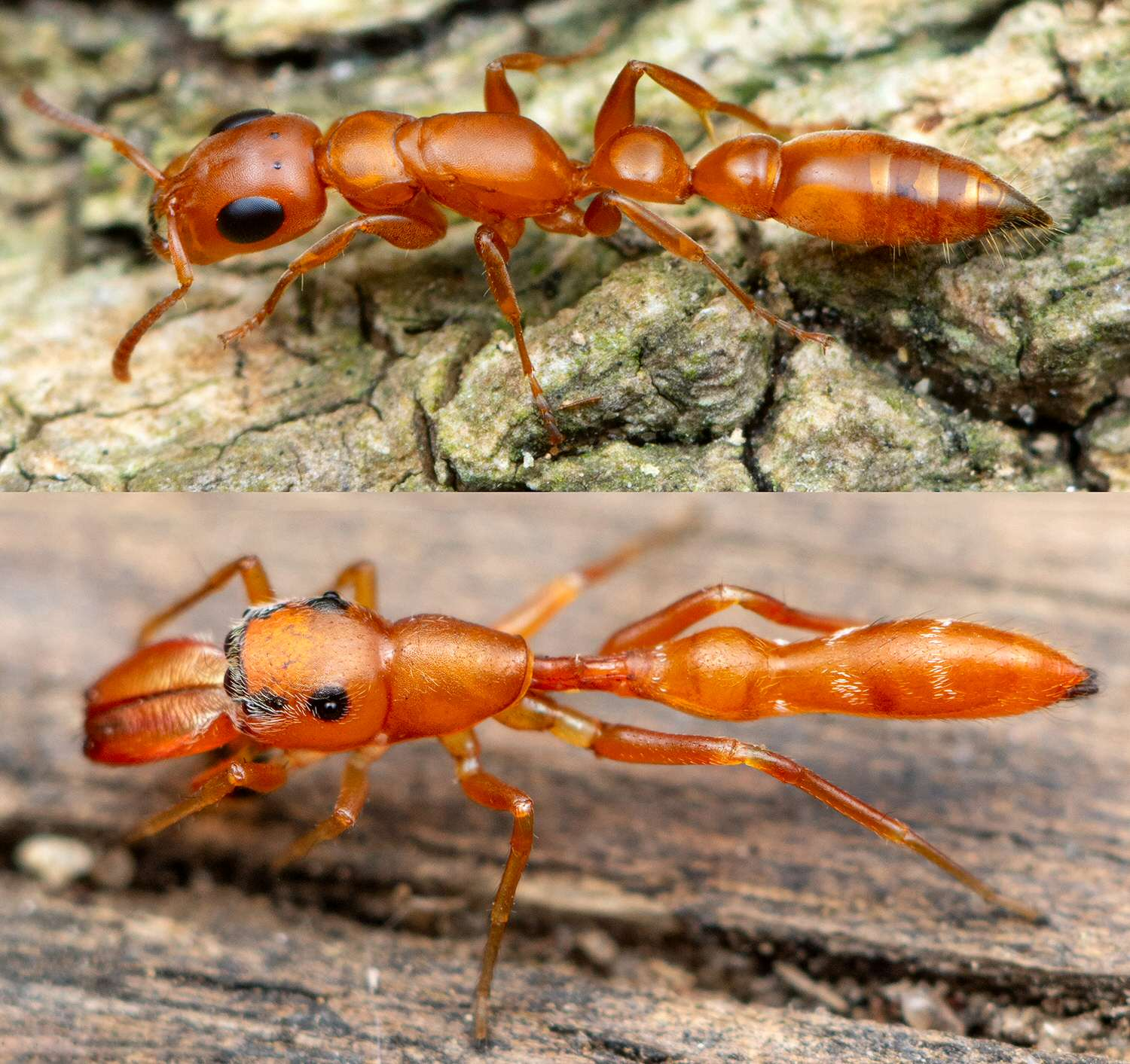 Comparison of ant and ant-mimic jumping spider (Myrmarachne ichneumon) in Gorongosa National Park, Mozambique